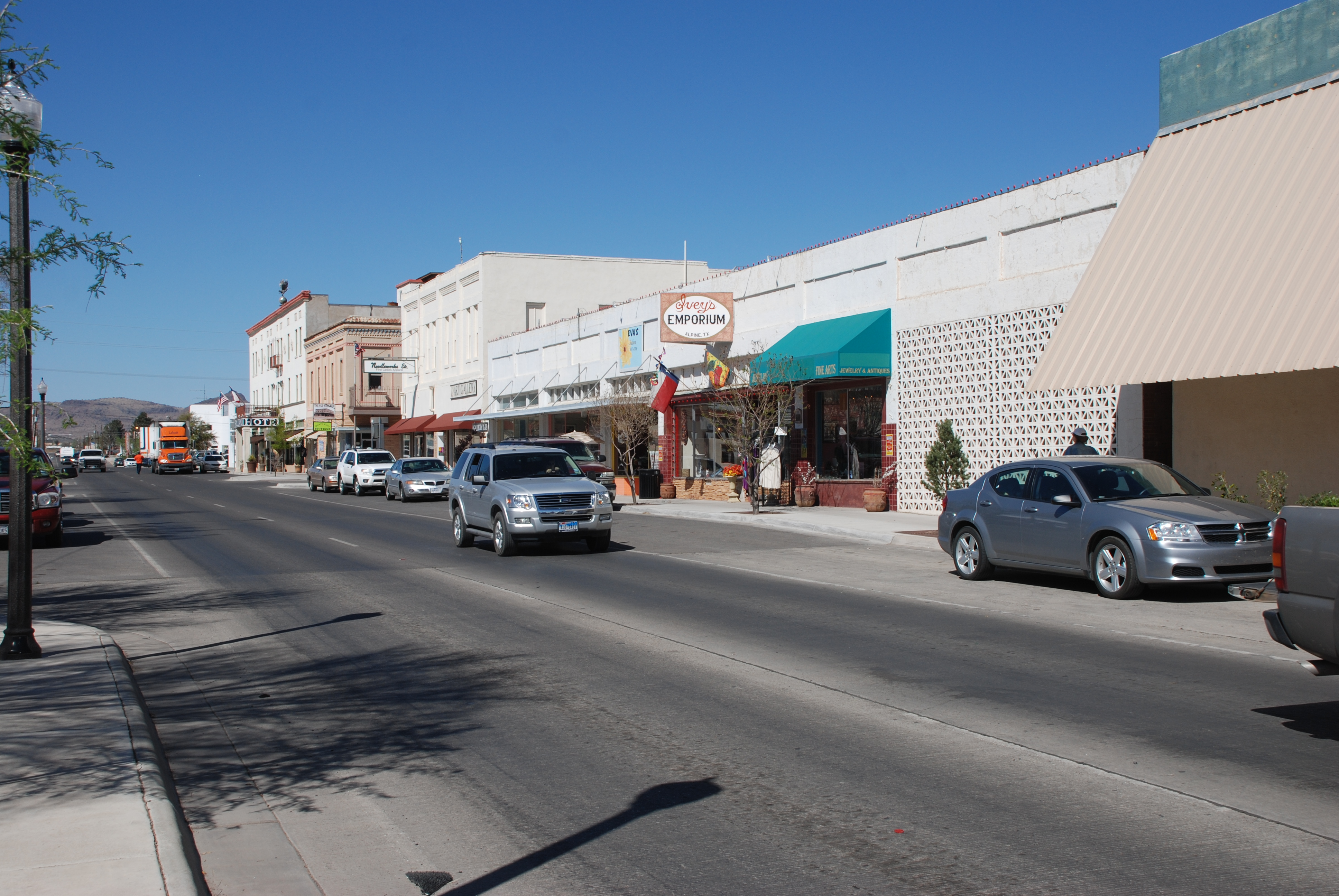 Holland Avenue and Hotel Holland (Alpine, Texas, USA)